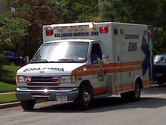 ambulance 282 (1998 Ford E-450, PL Custom type 3) on scene w/ emergency lights on